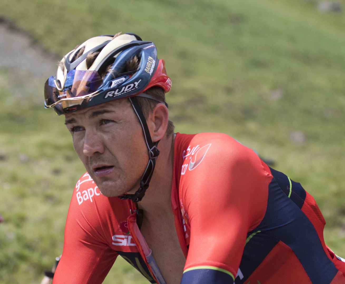 2018 Tour de France